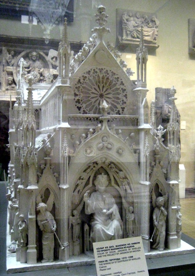 Shrine of s. Gertrude of Nivelles. Authors: Colar of Douai, Jakemon of Nivelles; project of Jakemon of Anchen. 1272-1298. Cast in Pushkin museum from silver original formely in church of Saint Gertrude in Nivelles, Belgium. Original was destroyed in 1940 with some fragments left